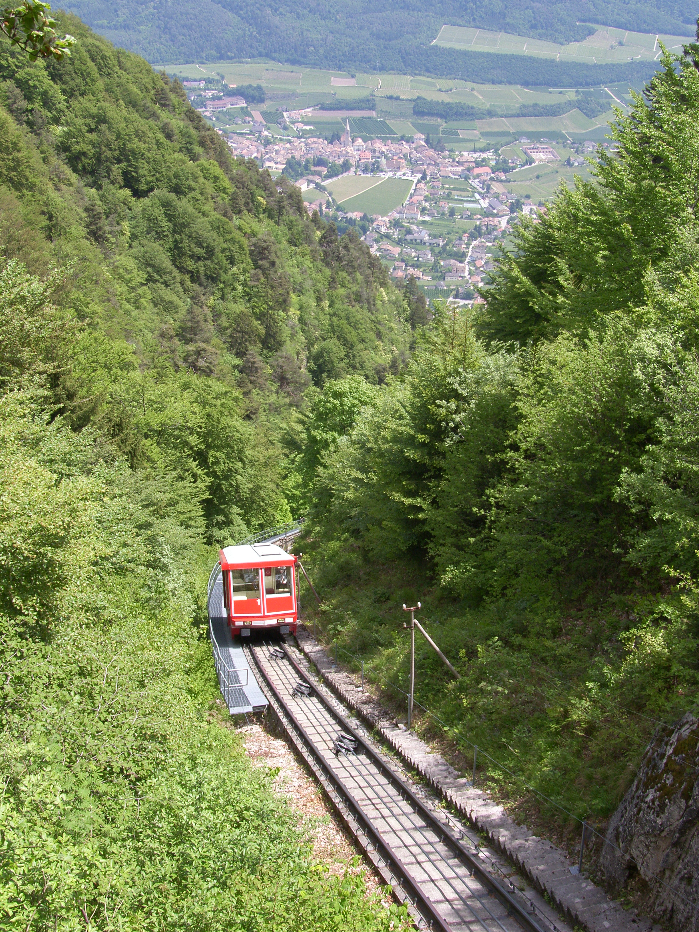 Funicular Mendola, about 500m below top station down to Kaltern (it: Caldaro), see in the Background}, old train before 2009